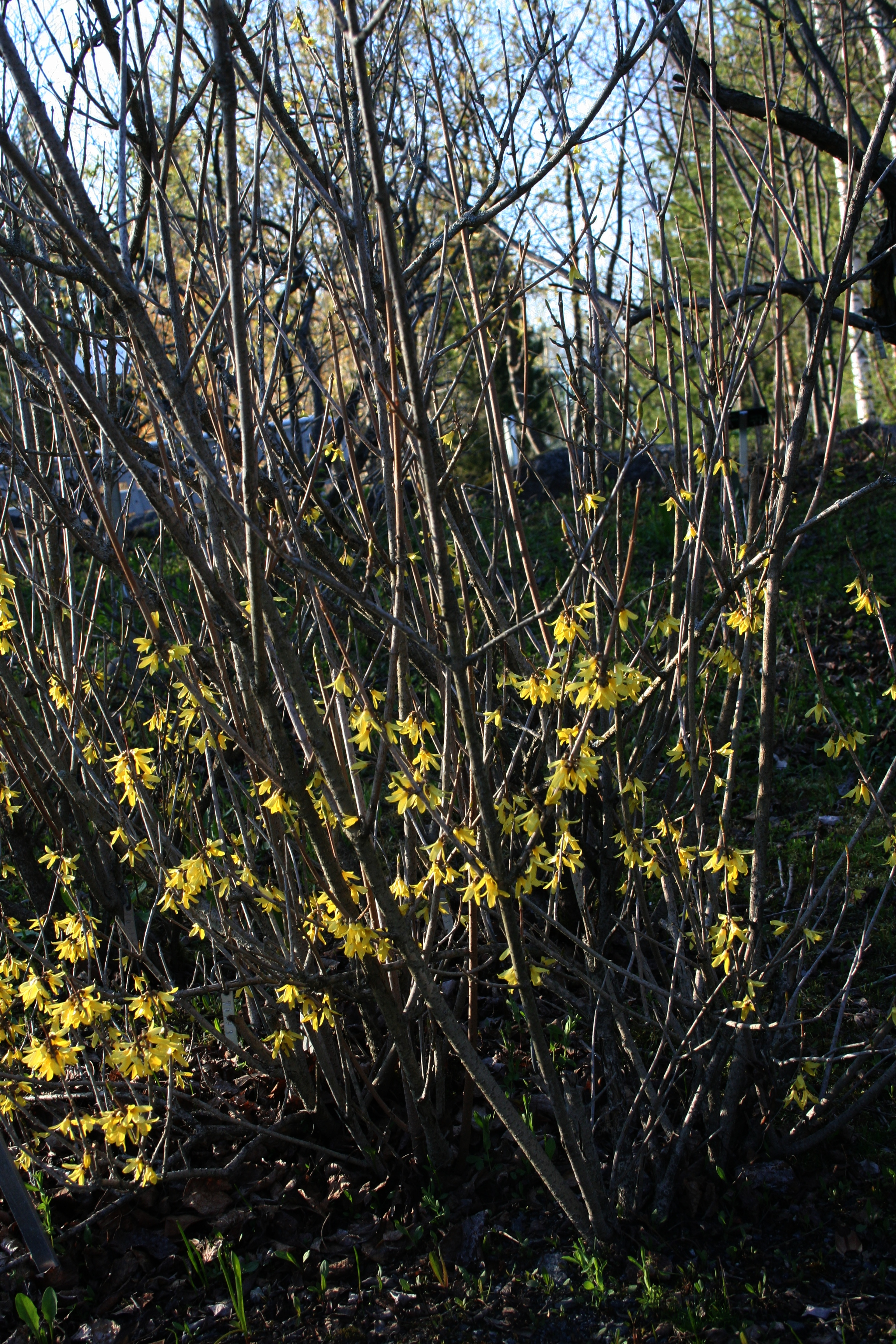 Blooming Forsythia ovata. Oulu University Botanical Gardens, Finland.